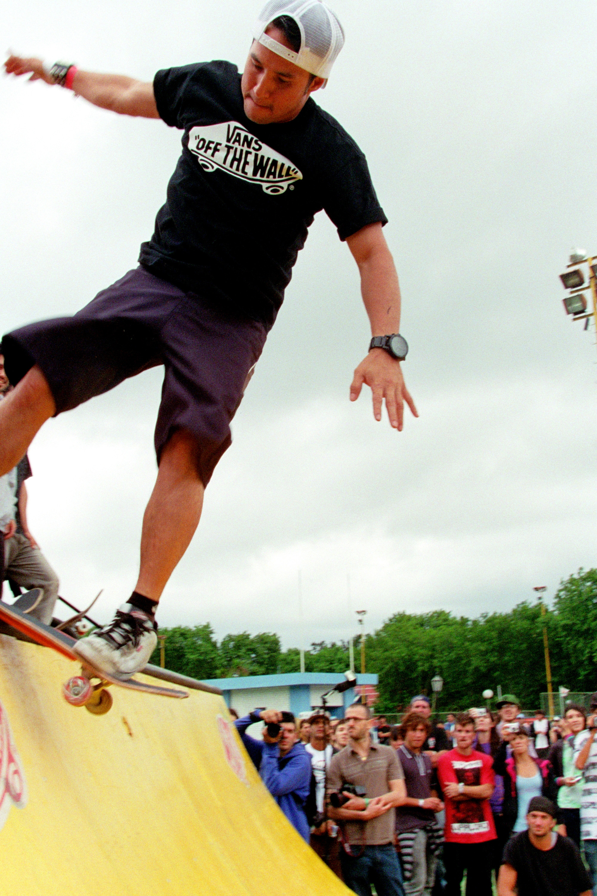 Christian Hosoi during the Vans Rock & Ramp Tour in November 2008